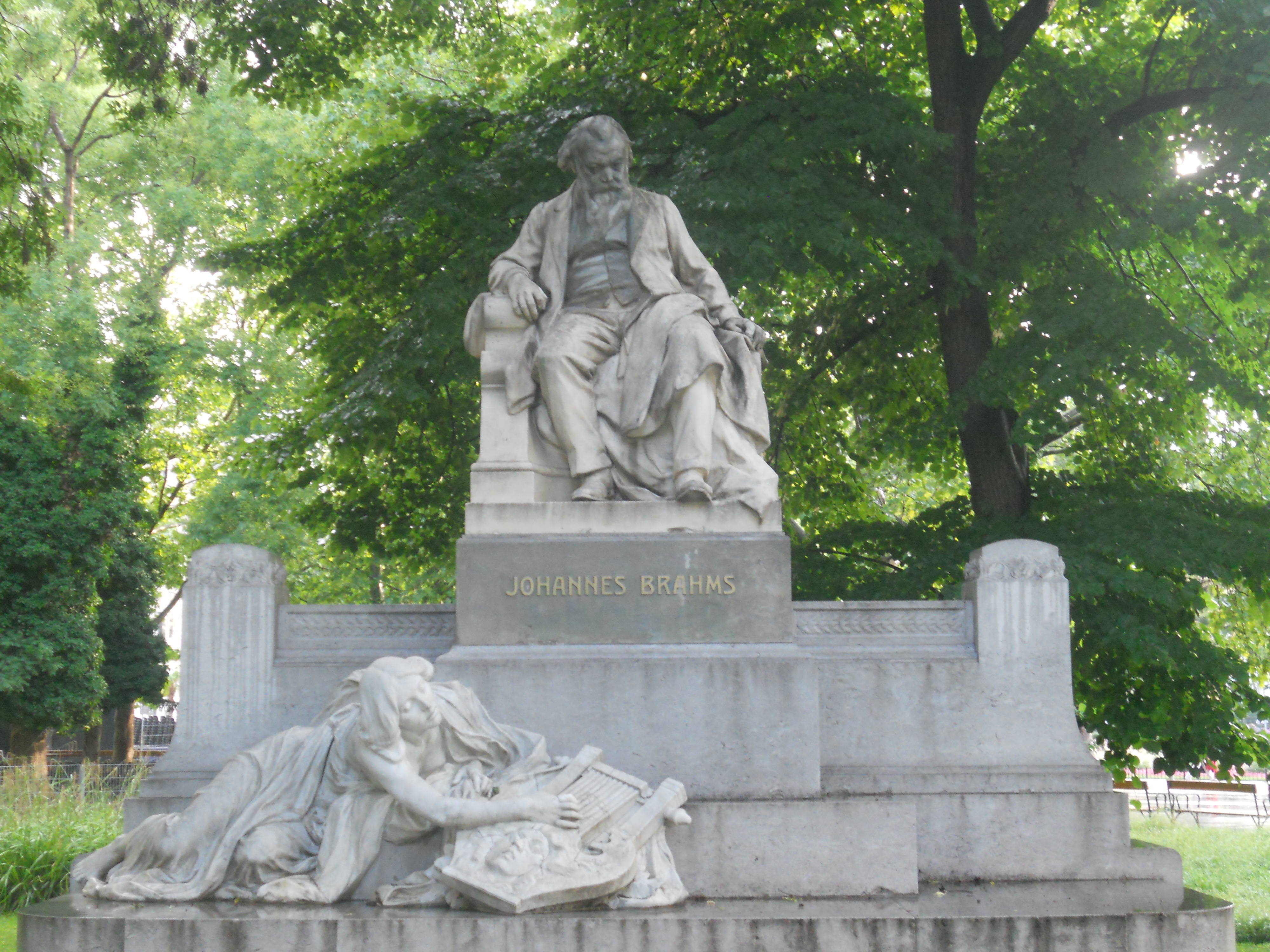 The monument to Johannes Brahms on the Karlsplatz in Vienna